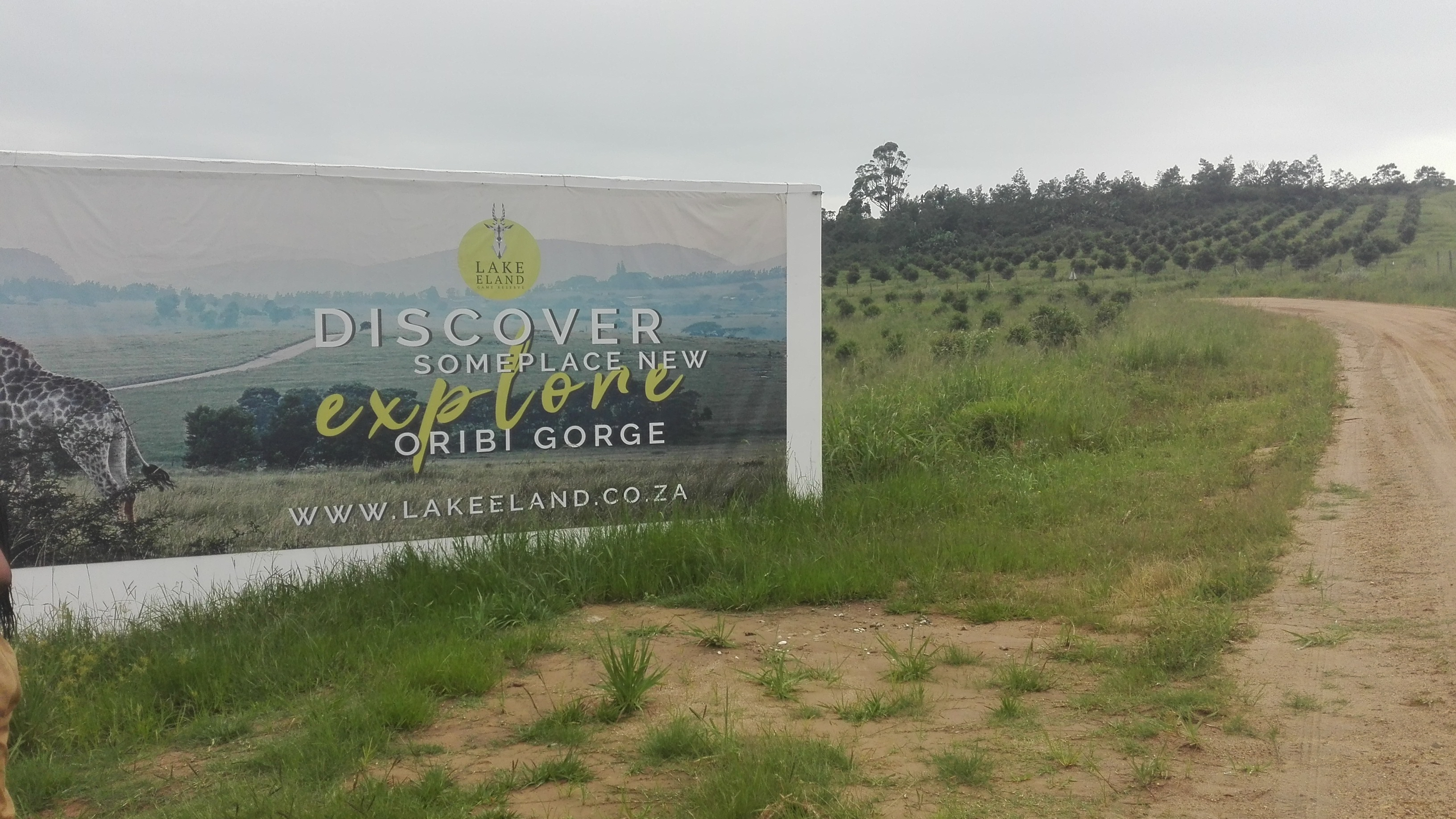 Welcoming Sign at Oribi Gorge